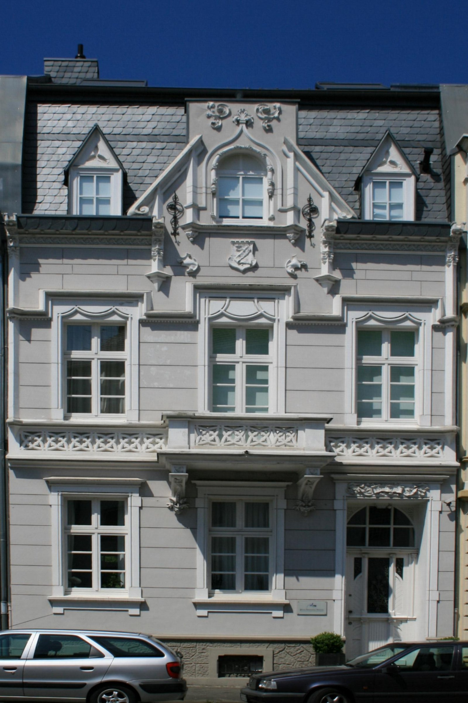 Cultural heritage monument No. K 032 in Mönchengladbach